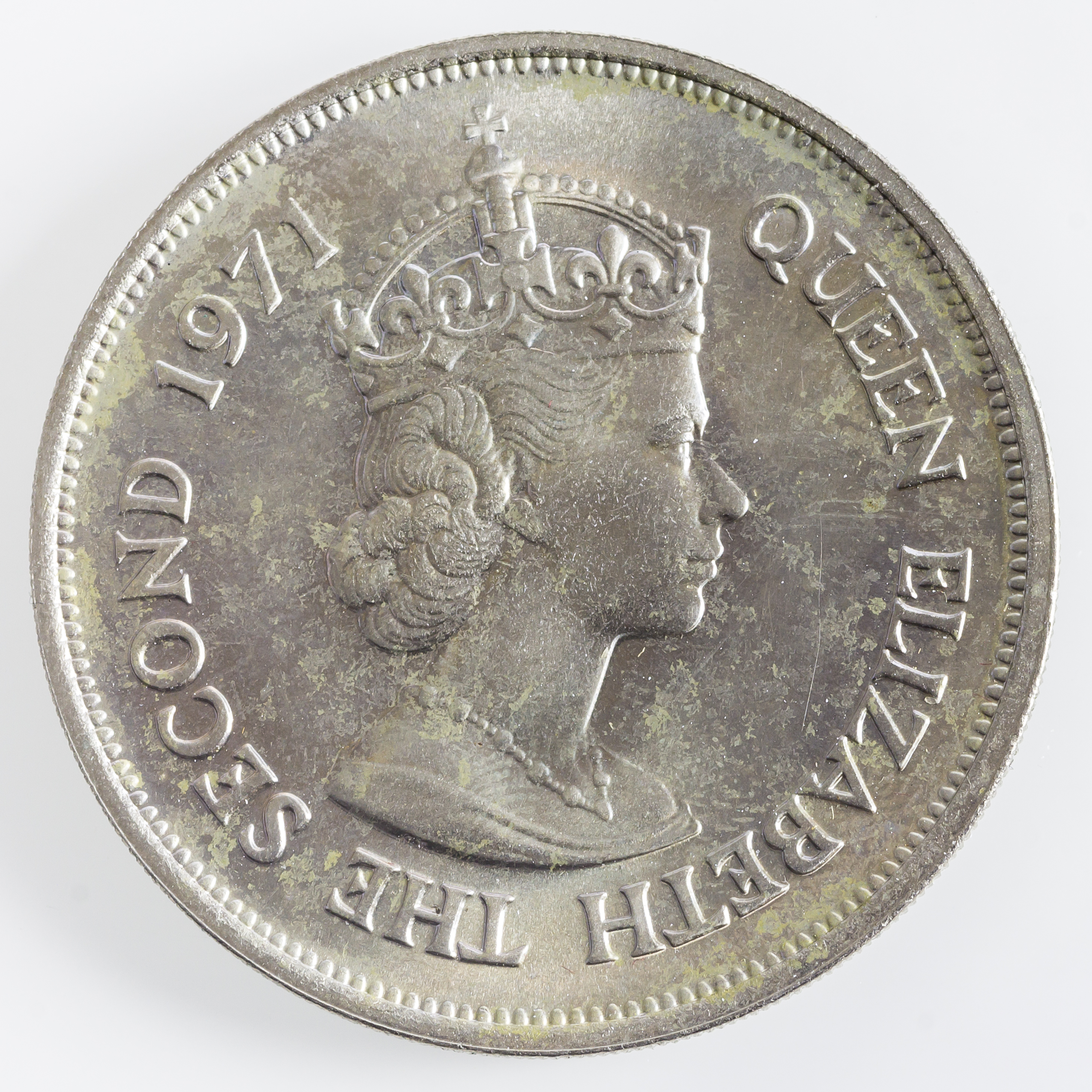 Mauritius 10 Rupees 1971 Elizabeth II(obv)